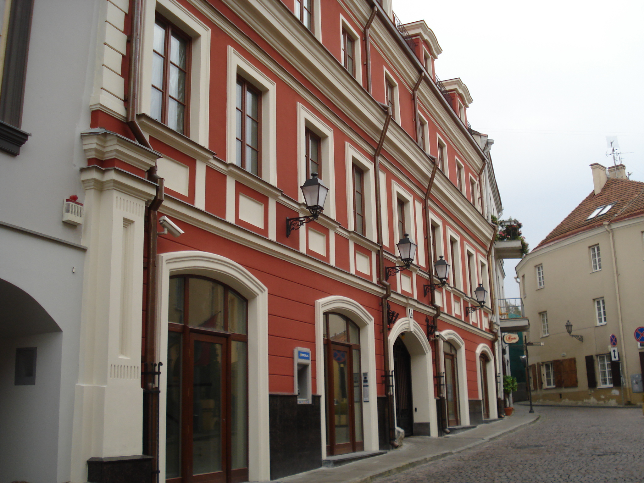 Gaono gatvė 3 (Gaono street 8) in Vilnius; 16-19th centuries, constructed 2004-2008